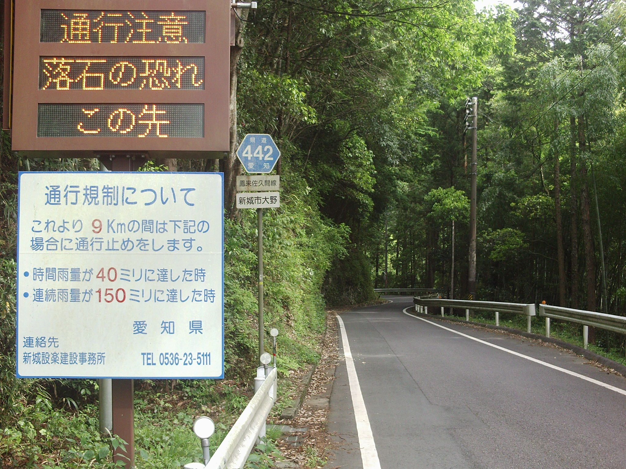 Aichi prefectural road No.442 in Ono, Shinshiro, Aichi.